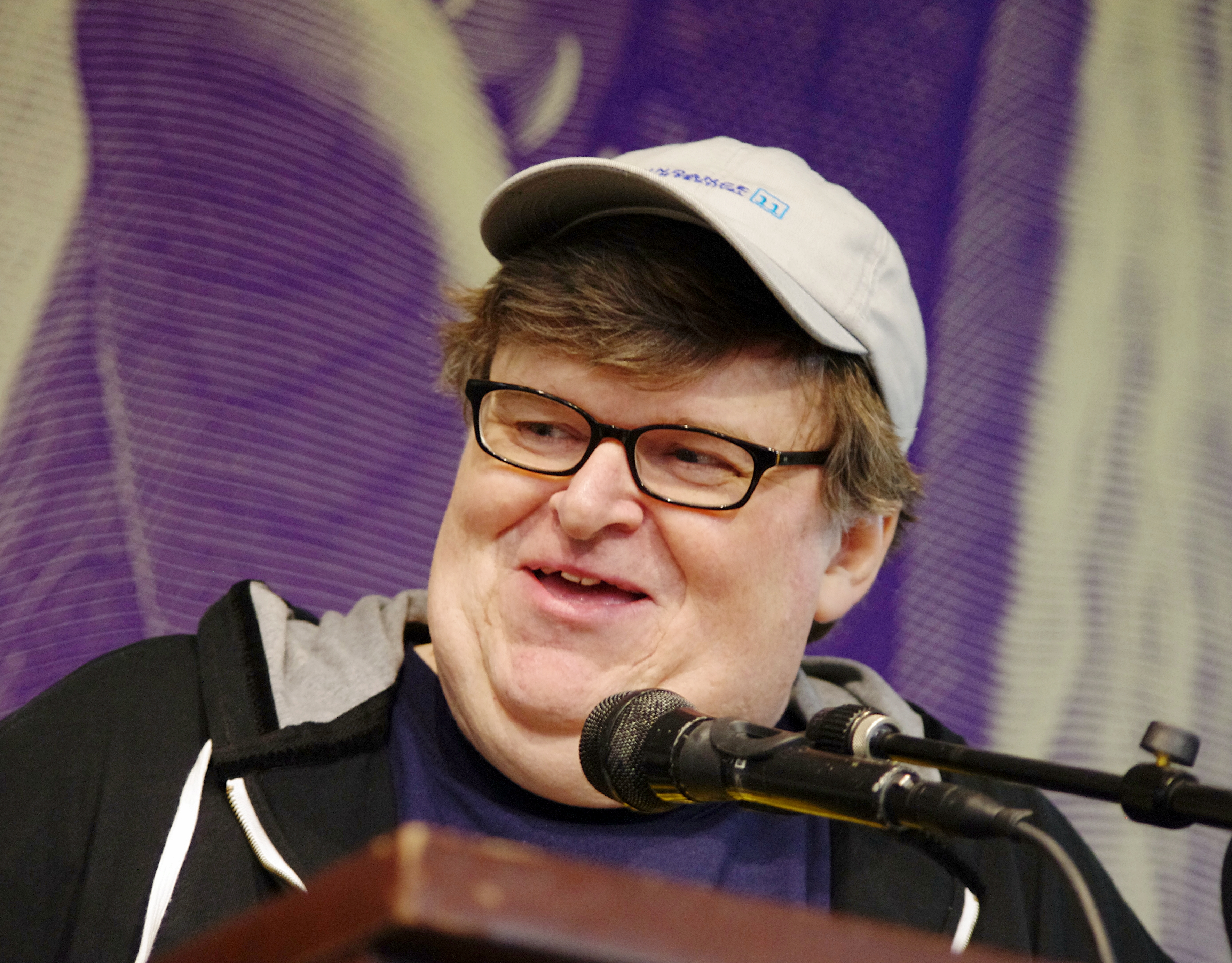 Michael Moore in New York City's Union Square Barnes & Noble to discuss his book Here Comes Trouble.